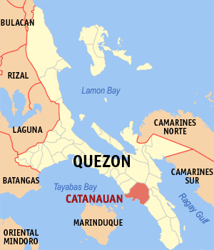 Map of Quezon showing the location of Catanauan